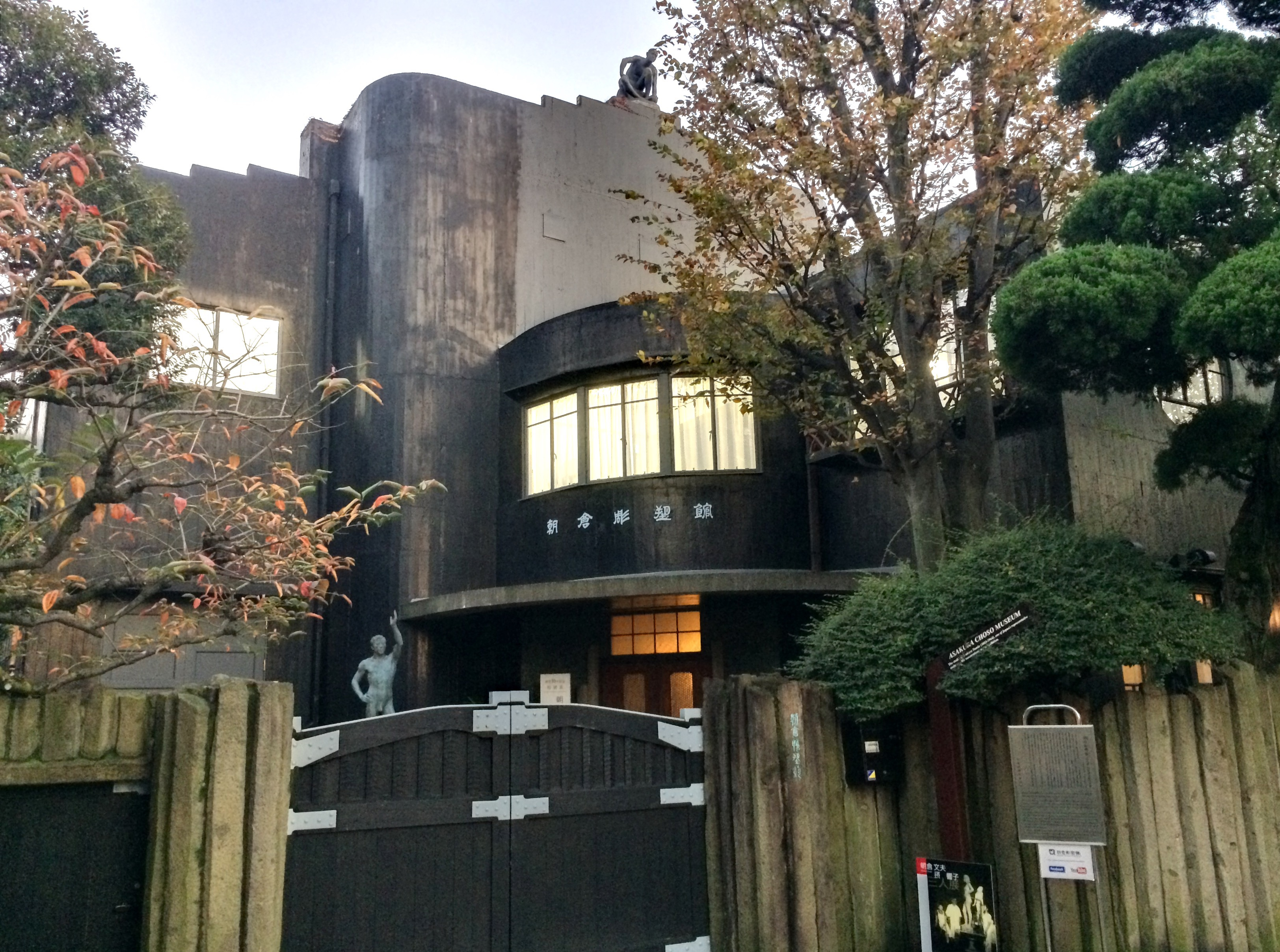 Asakura Museum of Sculpture (朝倉彫塑館（あさくらちょうそかん,）)